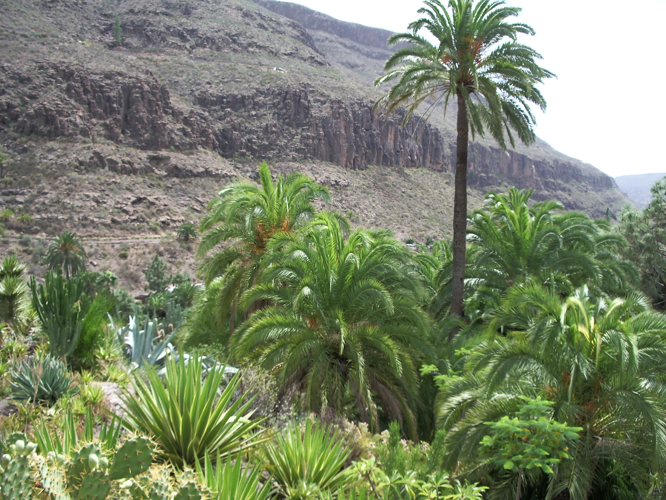 Palmitos Park. Gran Canaria. Canary Islands (Spain)